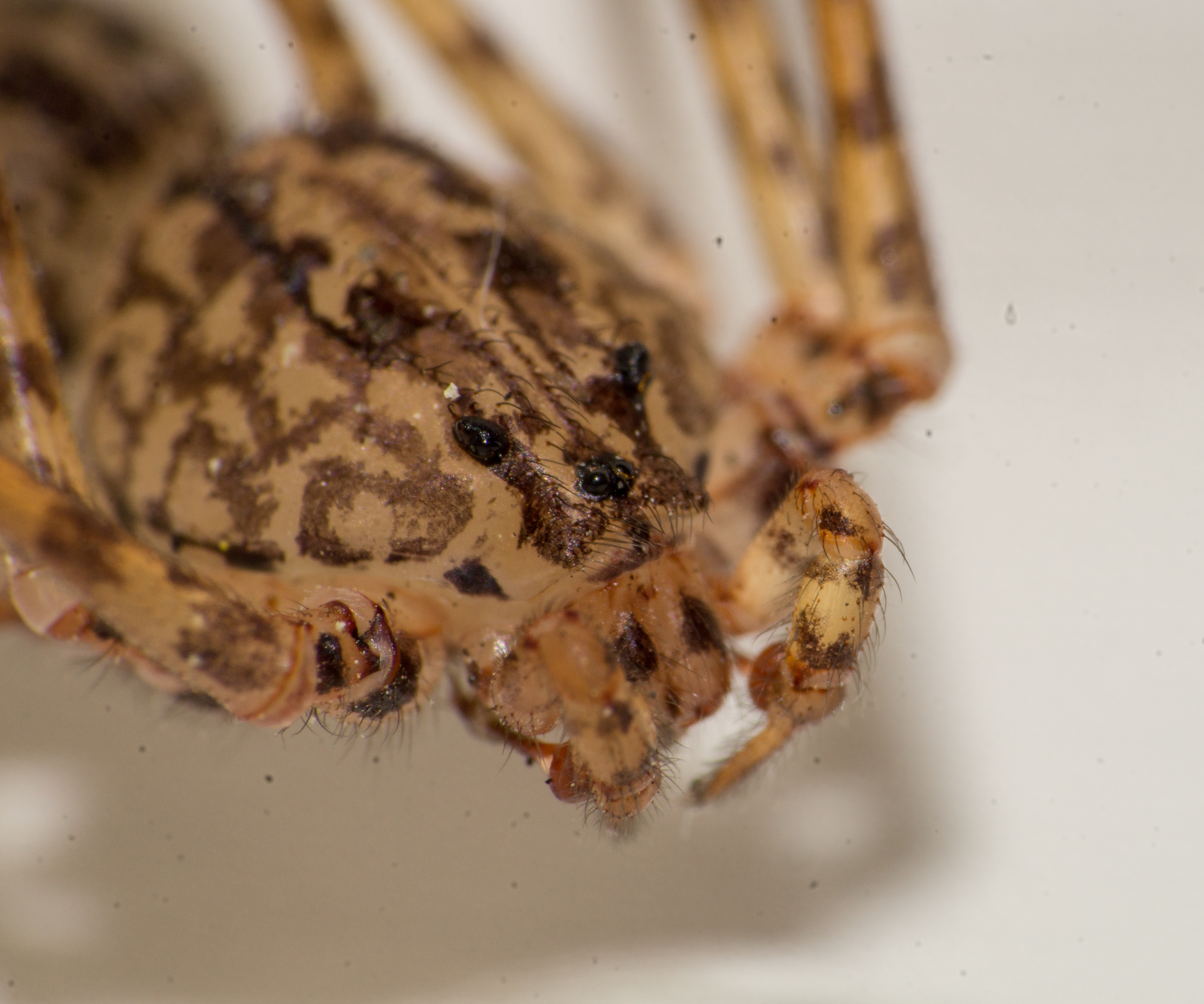 Cephalotorax of Scytodes glabula